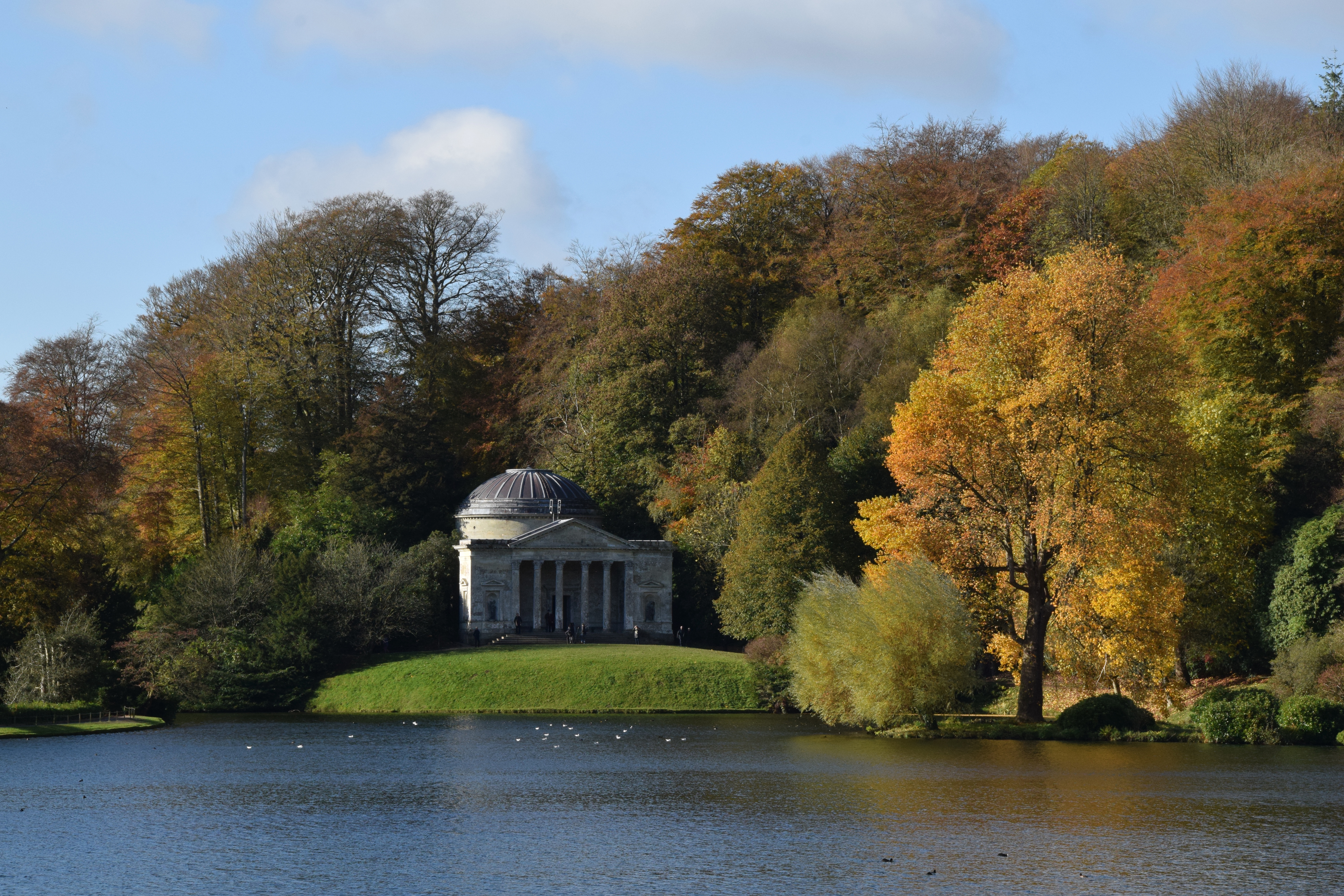 The Pantheon (Stourhead) Wikidata has entry Q17529443 with data related to this item.